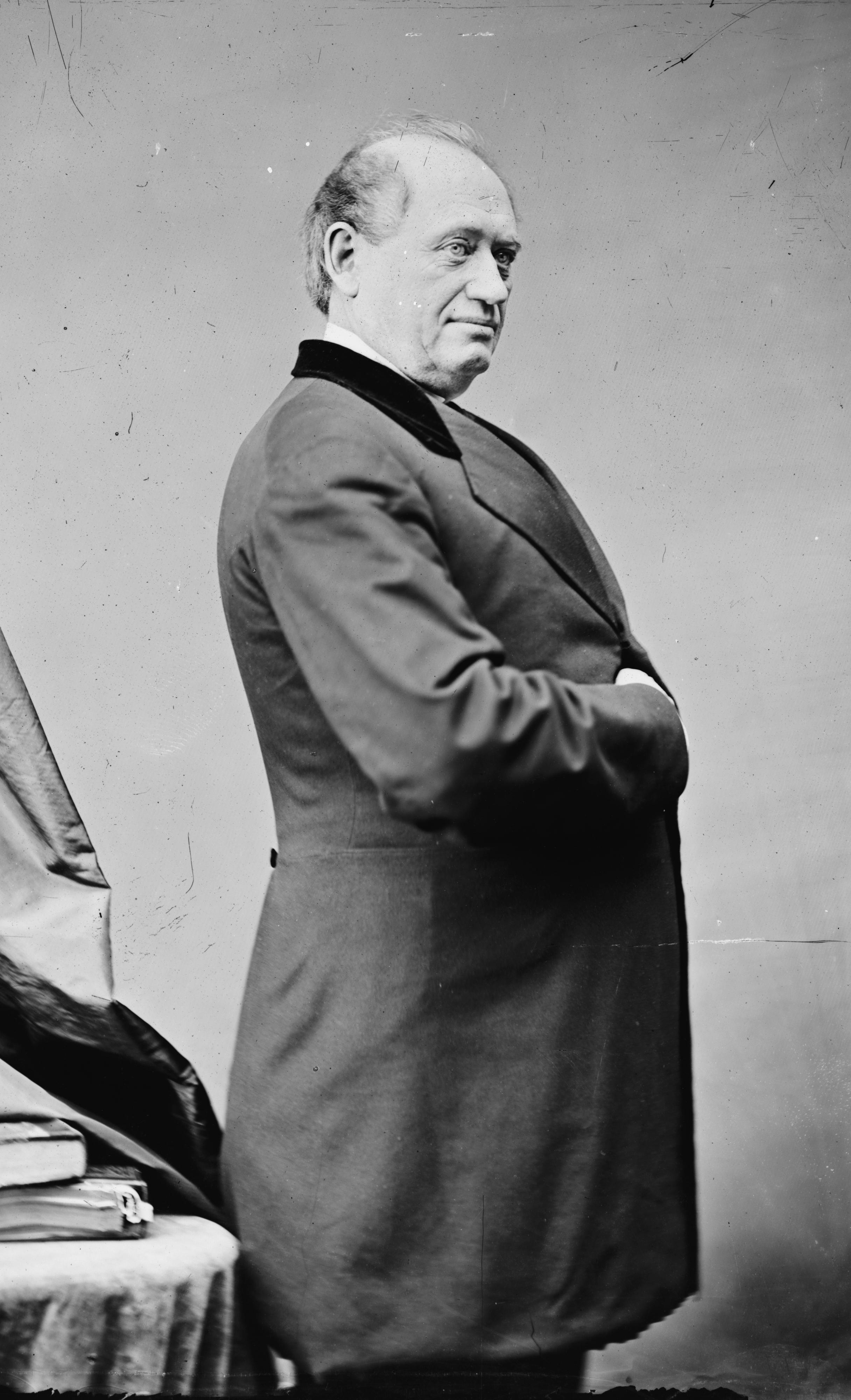 Godlove Stein Orth. Library of Congress description: "Hon. Godlove Stein Orth of Indiana"